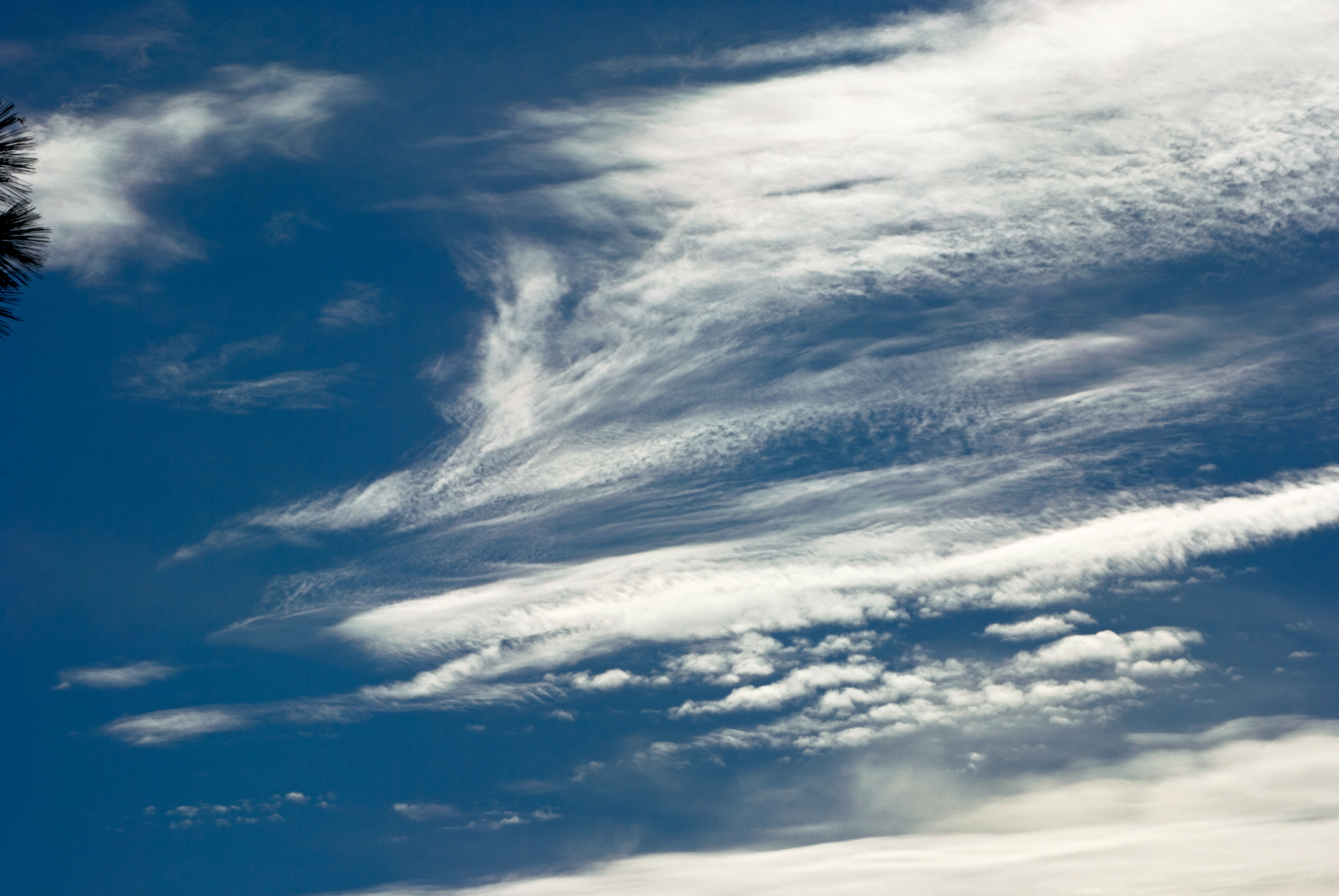 Cirrocumulus lacunosus clouds